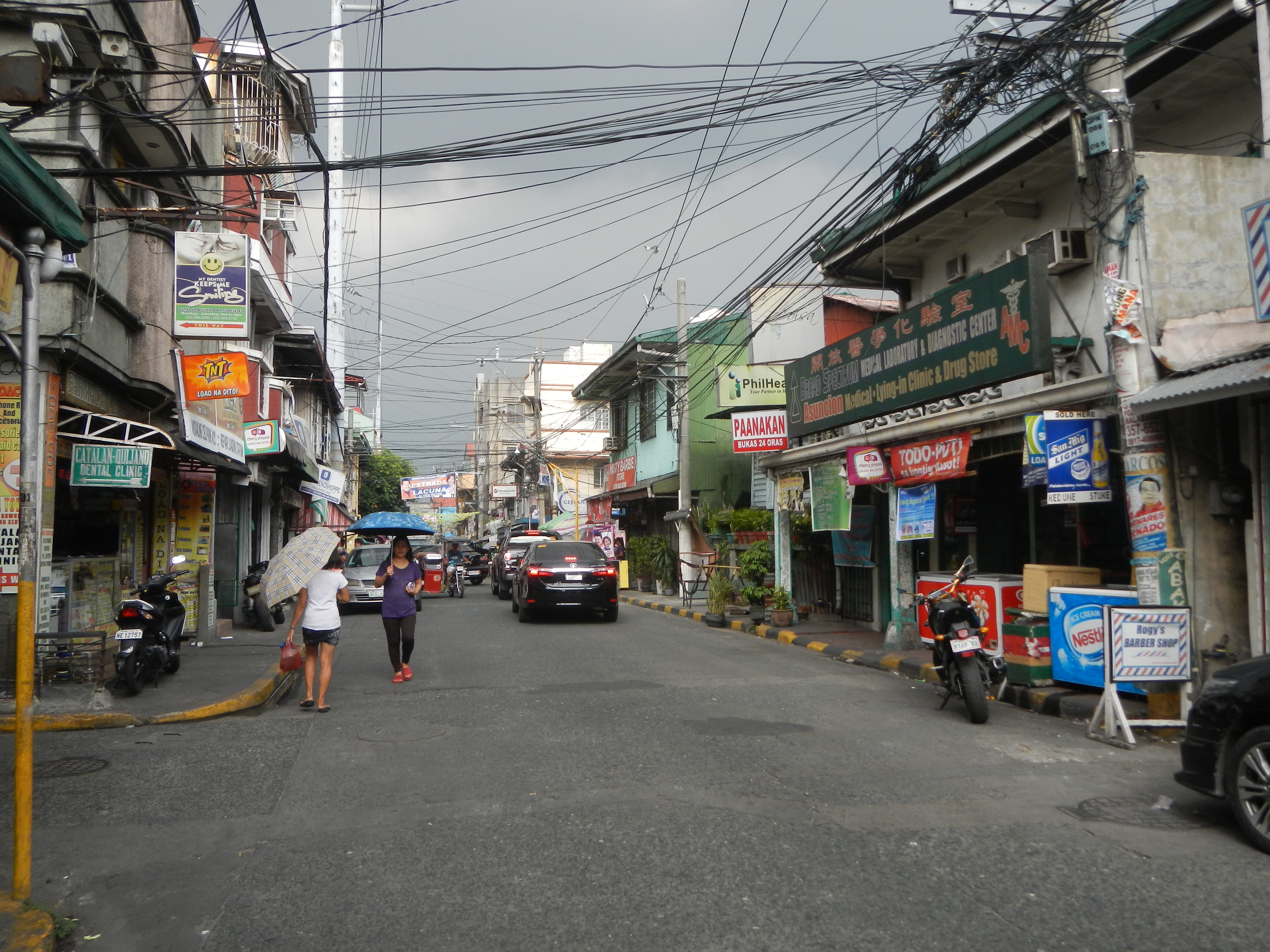 Caloocan City Rizal Avenue, Rizal Avenue Extension (Light Rail Transit Authority, Tondo, Manila) from Rizal Avenue Extension (Caloocan City) in Rizal Avenue Extension, Grace Park, from 1st Avenue, connected by the Ramon Papa Bridge under construction Rizal Avenue, Tondo, Manila, List of roads in Metro Manila, Manila Light Rail Transit System Line 1 R. Papa LRT Station Ramon Papa Street corner Limay Street to Hermosa Street corner Molave Street and Morong Street to Abad Santos Avenue in List of barangays of Metro Manila, Legislative districts of Manila Barangays 187, 188, 189, 190, 191, 192, 193, 194 and 195, Zone 17, District II, Obrero Tondo, Manila, City of Manila, Holy Cross Chapel surrounded by List of rivers and estuaries in Metro Manila Estero de Binondo one of six major tributaries of the Pasig River with pumps of Lift Stations of the Maynilad Water Services Canal de la Reina floodgate that end at Muelle de Binondo - the M. dela Industria Bridge, 15 Tons maximum, Pumping Stations, West Metro Manila Flood District, under MMDA).